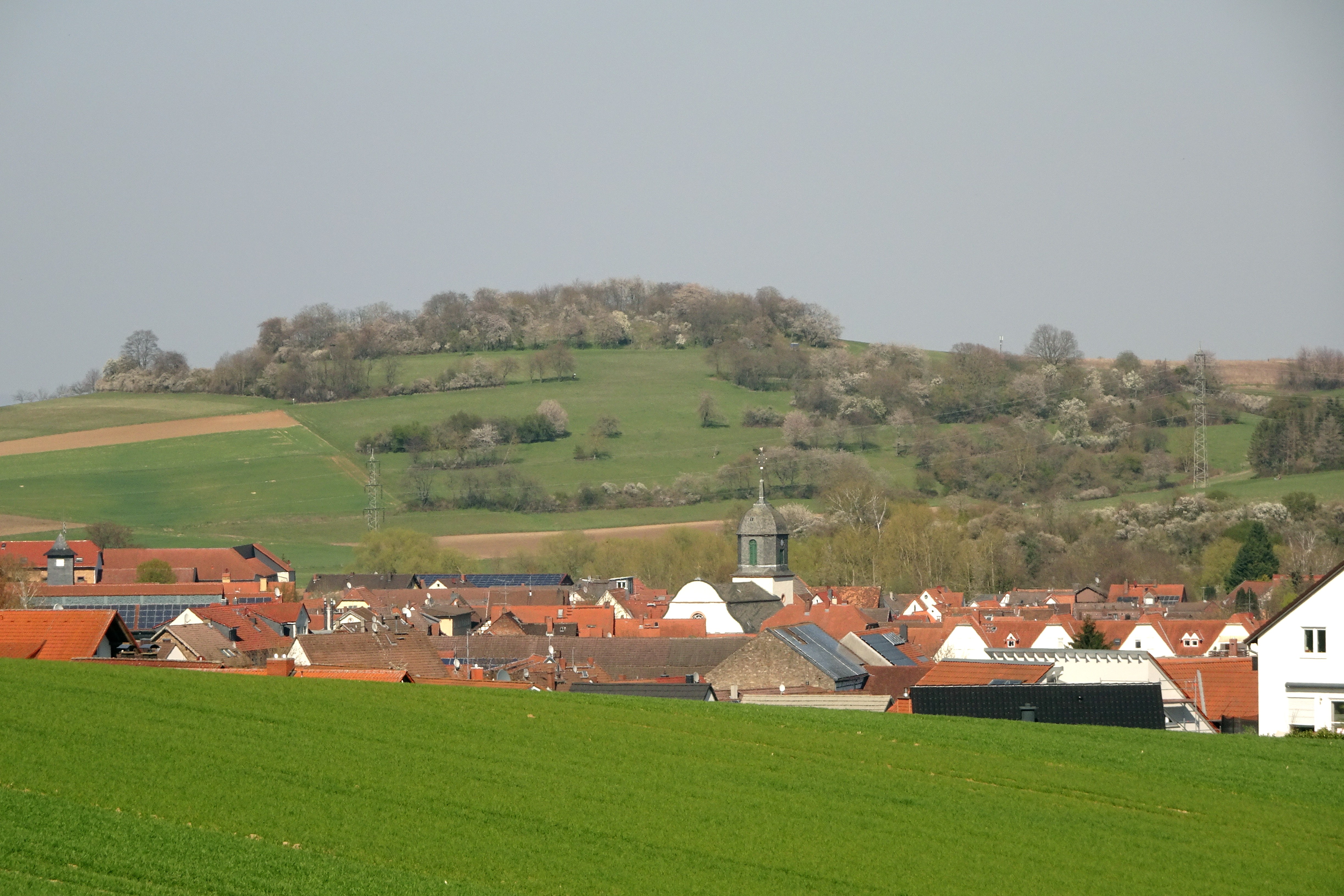 View from south on Groß-Bieberau and nature reserve Forstberg von Ueberau (NSG:HE-1432017), with flowering blackthorn, cherry and plum trees. Landkreis Darmstadt-Dieburg, southern Hesse, Germany.